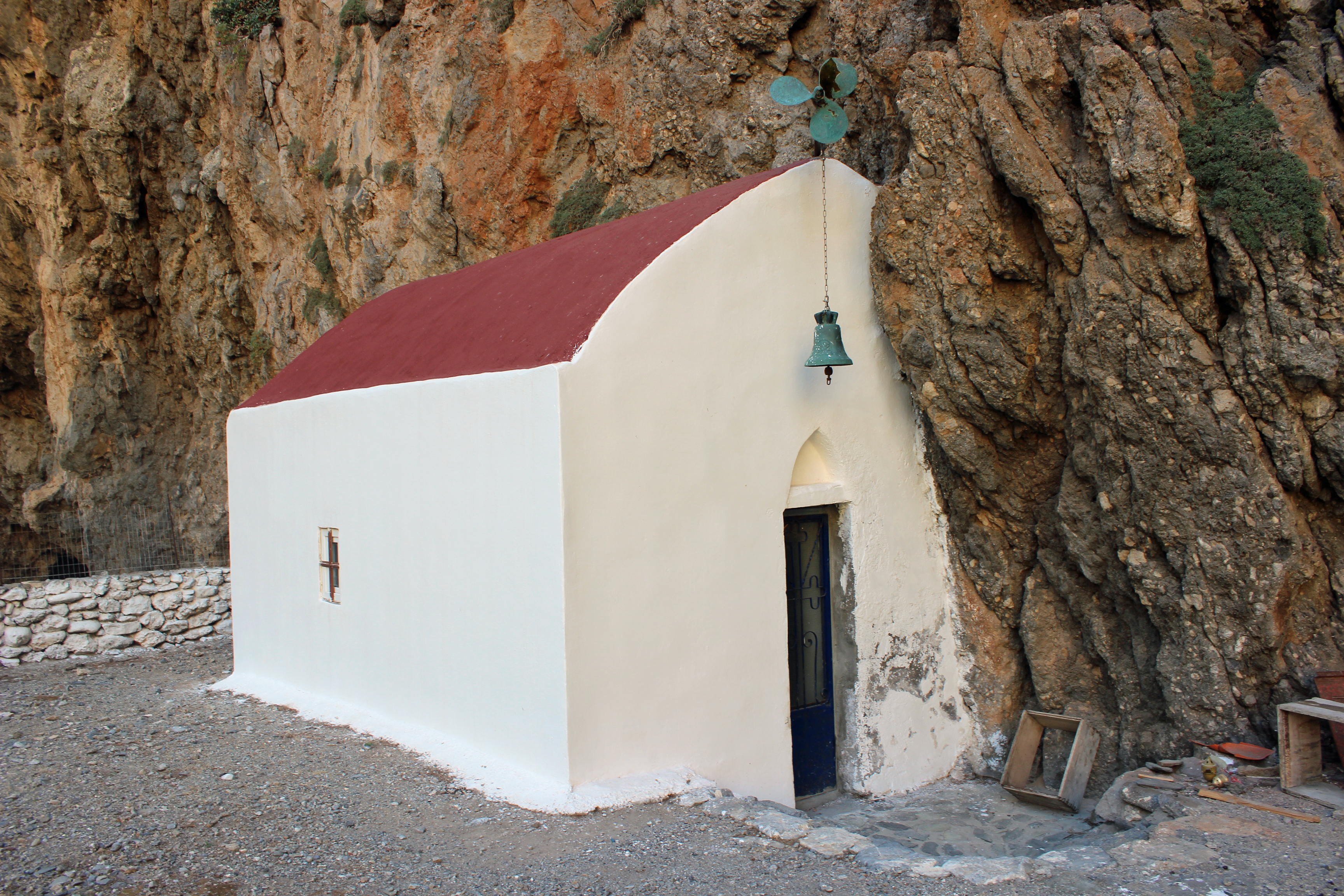 Chapel „Agios Nikolaos“, at the Tripiti beach, at the exit of the homonymous gorge, about 5 km east of Sougia, Crete